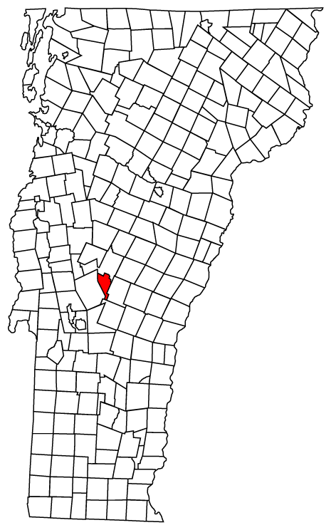 Description: Map of Vermont towns with Pittsfield highlighted Source: Map created by Jared C. Benedict on 26 March 2004. Copyright: © Jared C. Benedict.